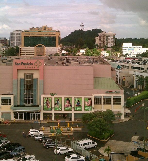 San Patricio Plaza in Pueblo Viejo, Guaynabo, Puerto Rico